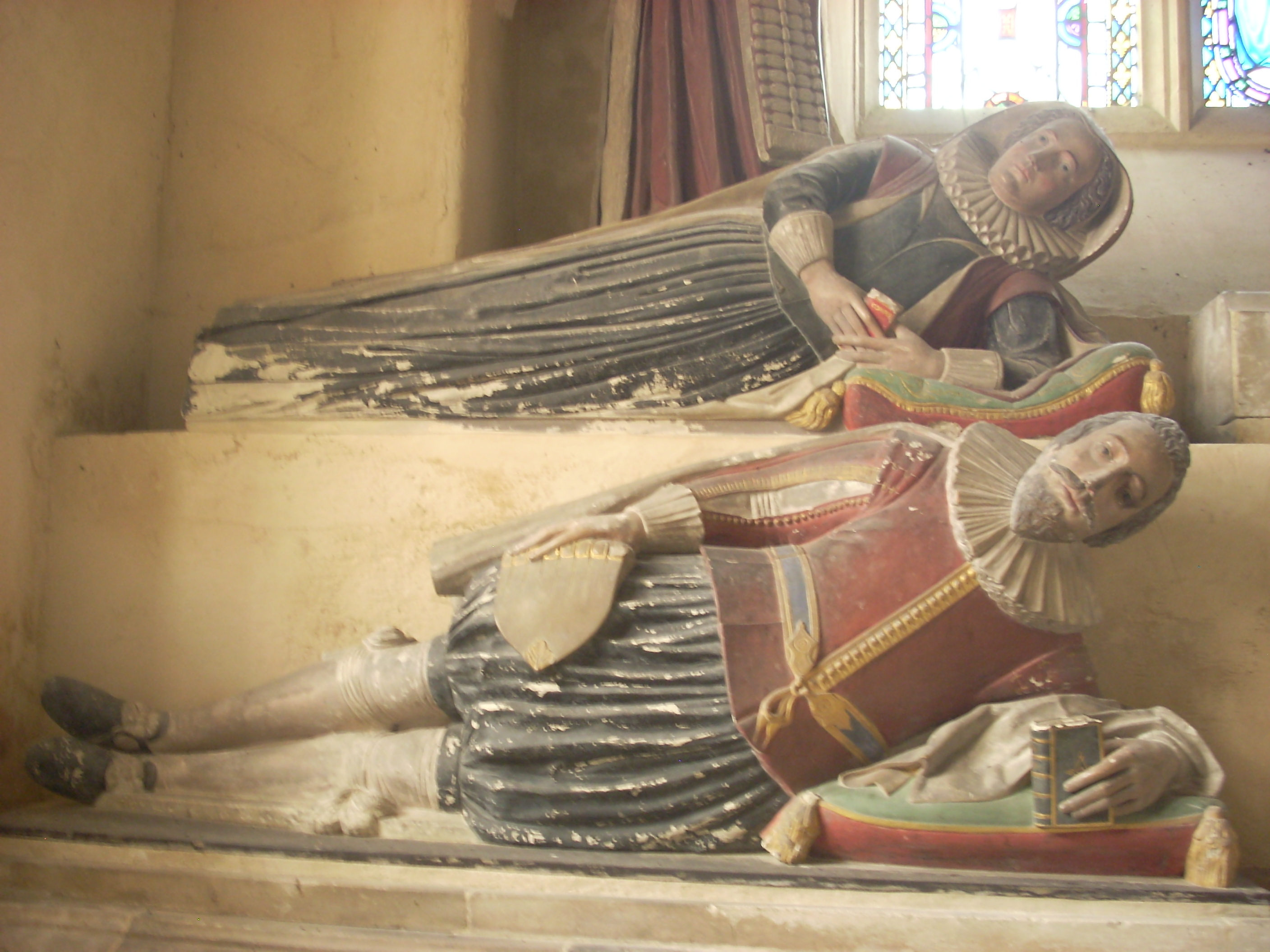 Detail of the late 16th century Cowper Tomb